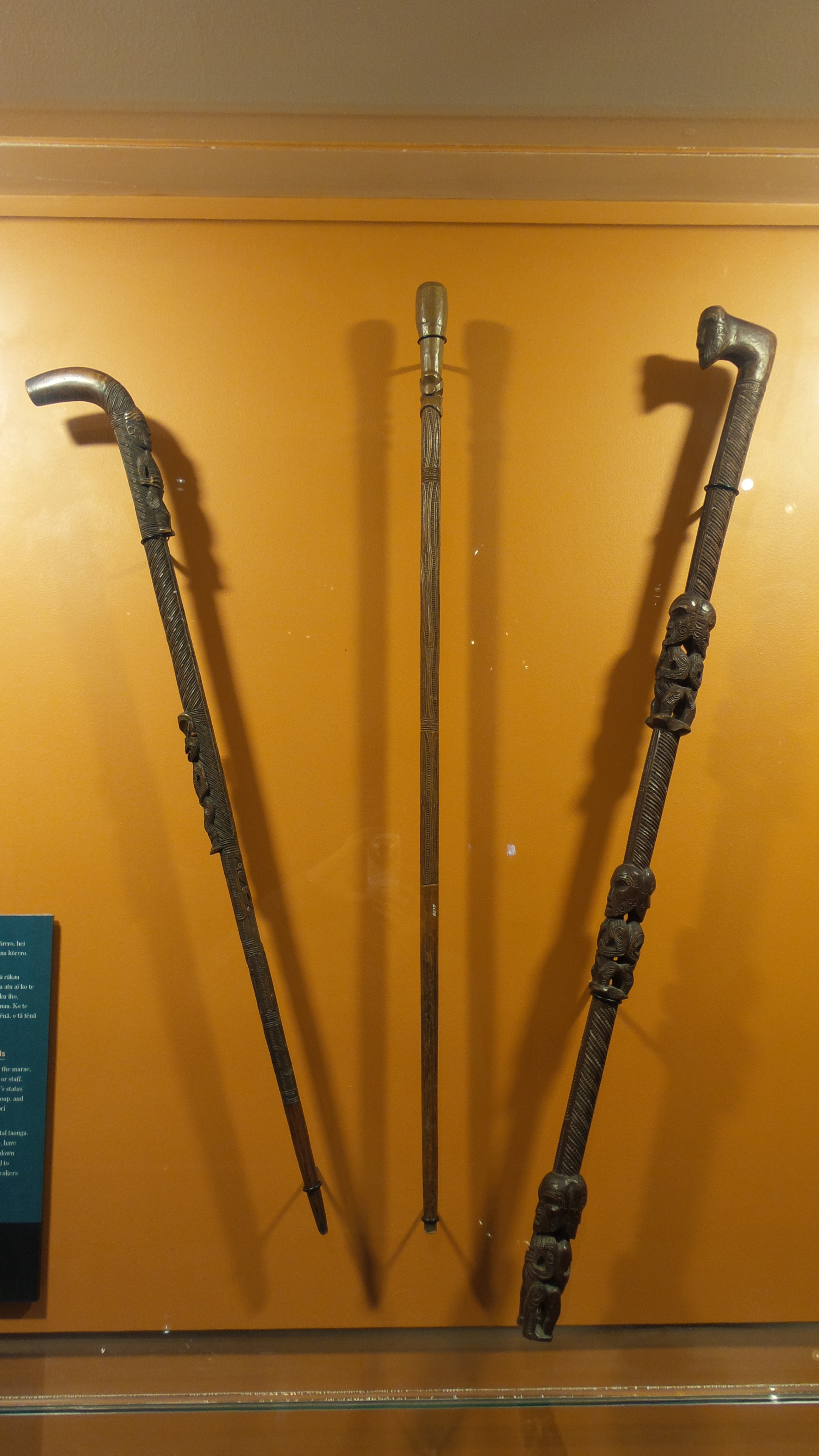 A collection of tokotoko (walking sticks) in Te Papa, Museum of New Zealand in Wellington.